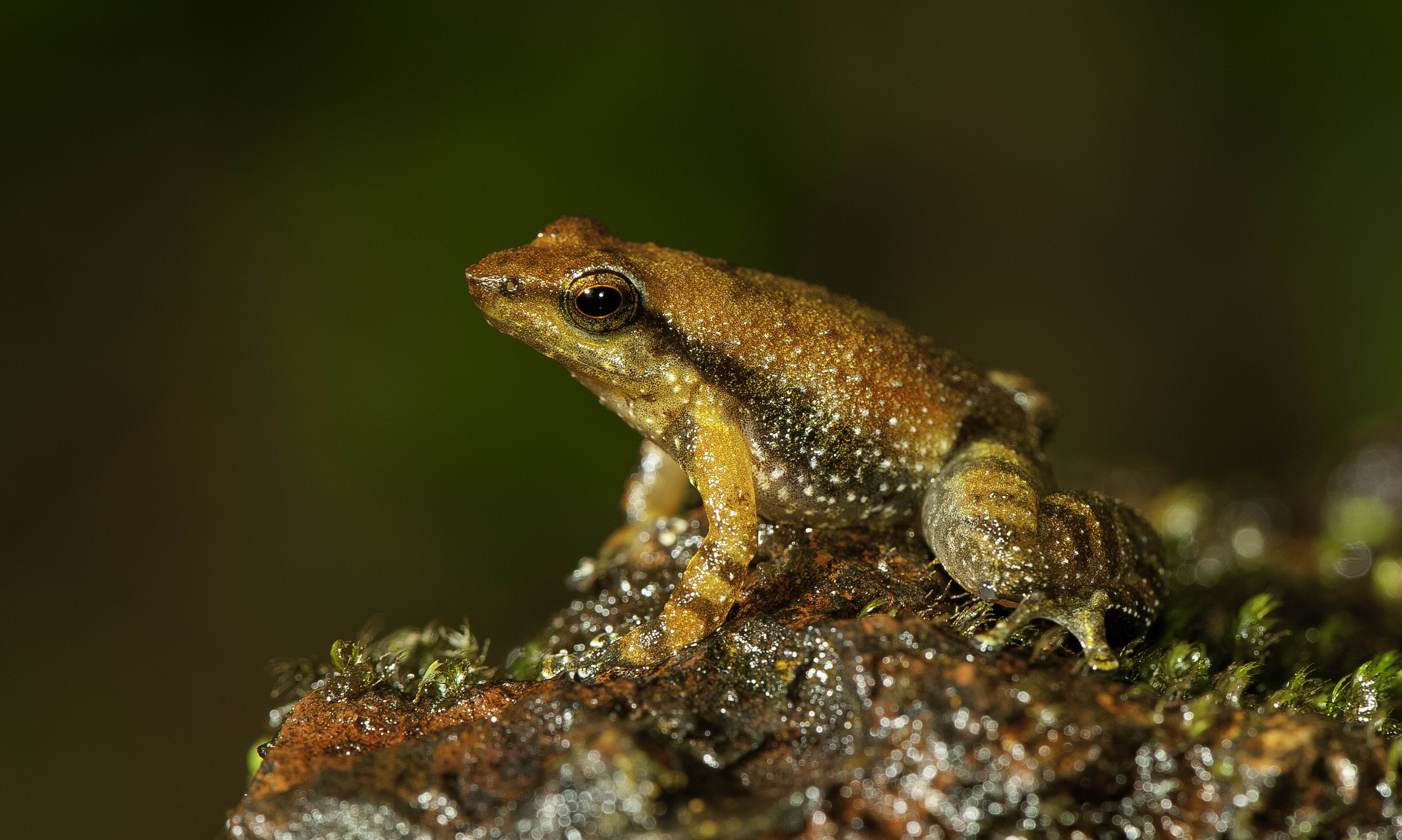 Micrixalus uttaraghati, a Dancing Frog from India.